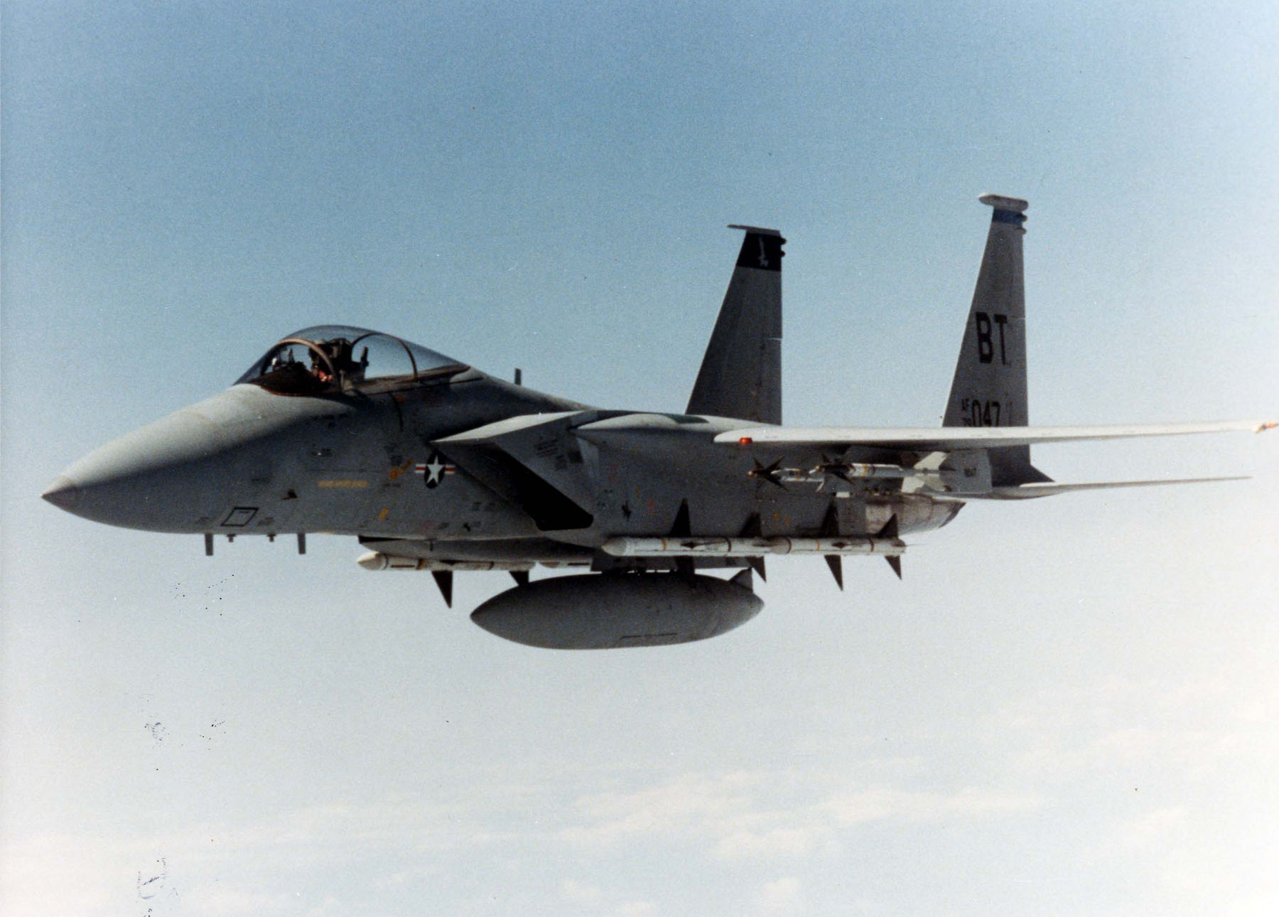 McDonnell Douglas F-15C (SN 79-047)